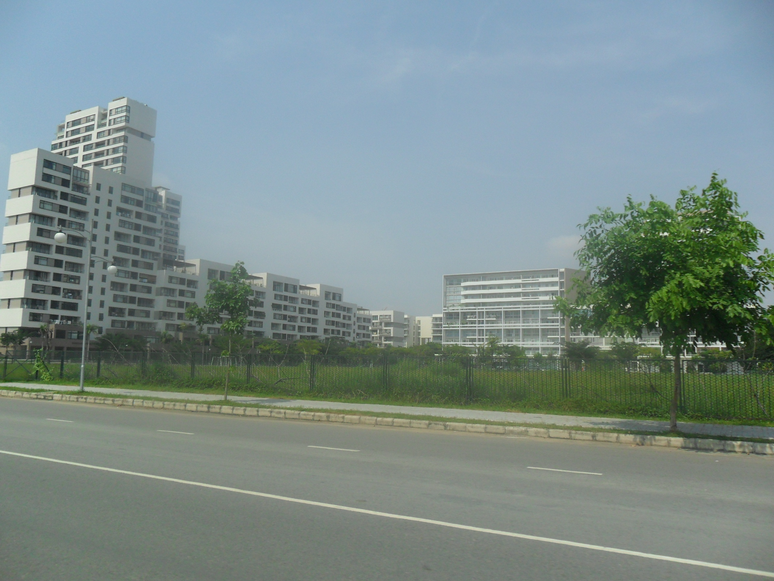 A view of apartment areas at Phu My Hung urban area in Ho Chi Minh City, Vietnam.